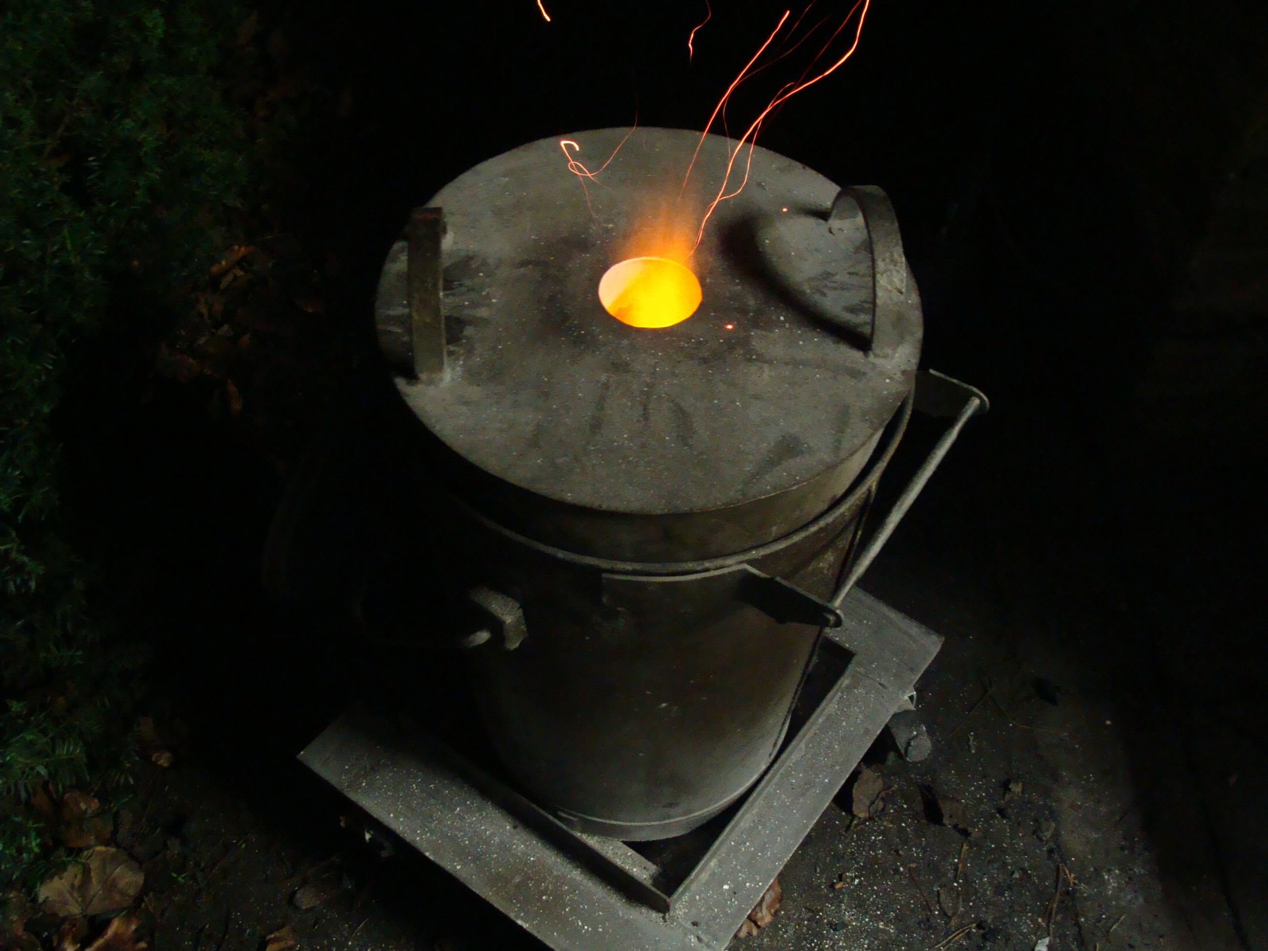 Charcoal oven